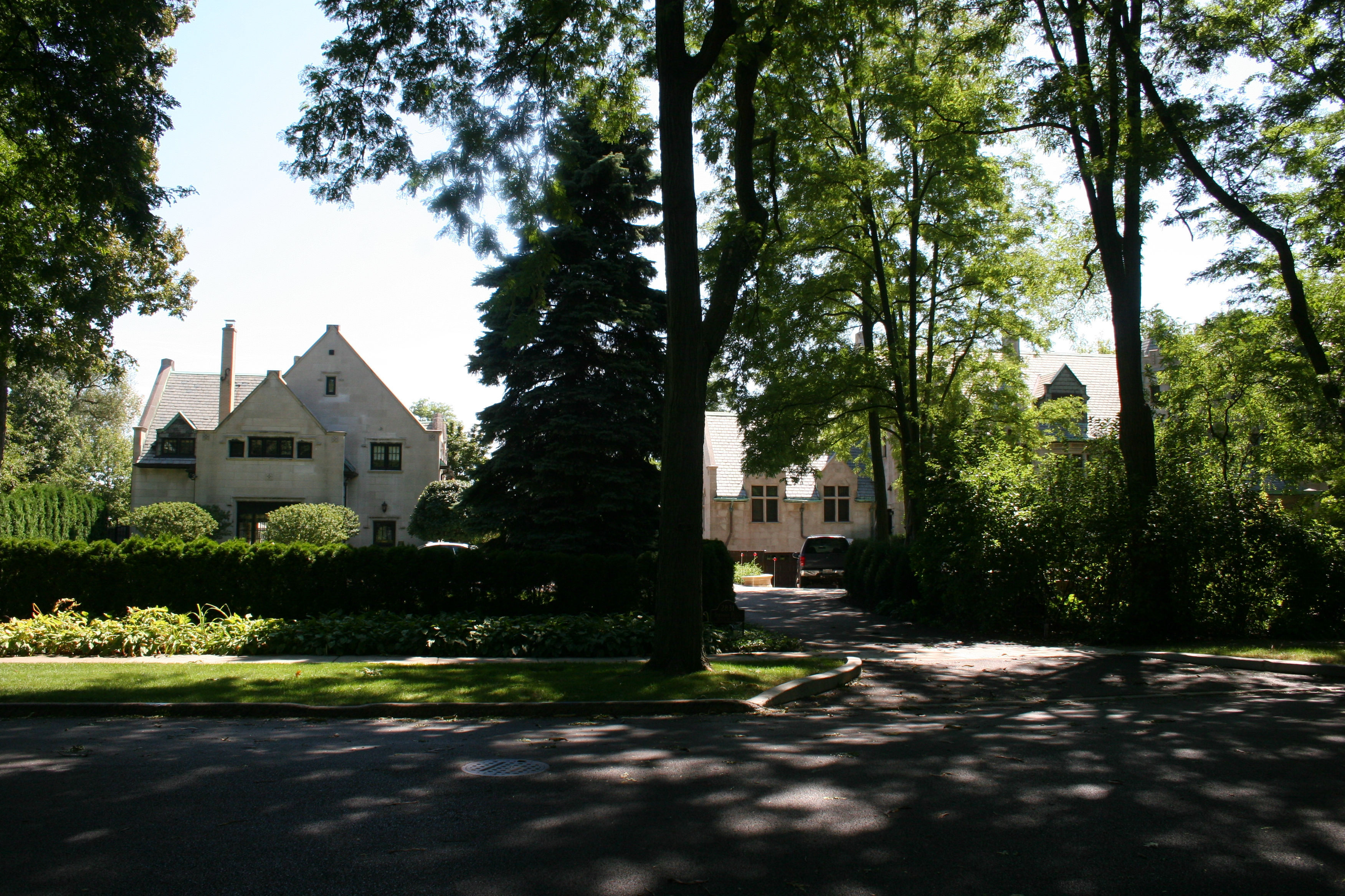 Historic estate in Evanston, IL